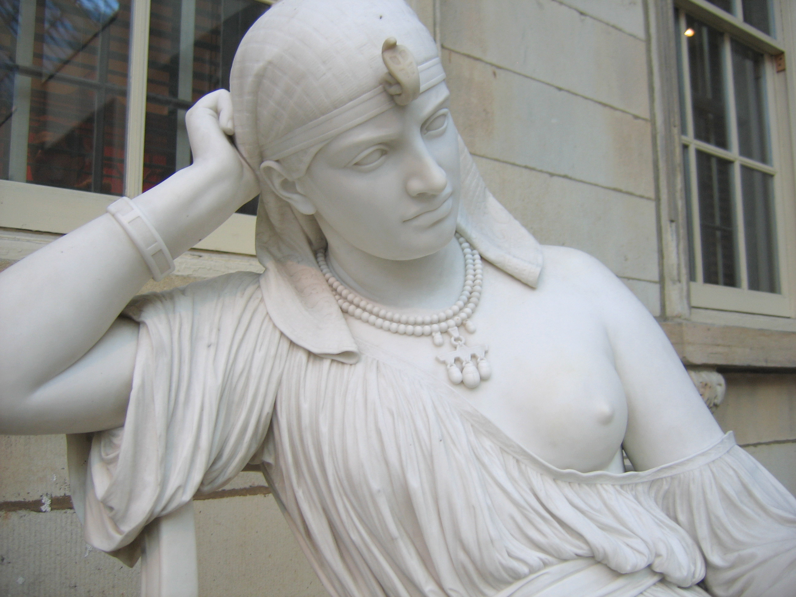 Cleopatra (detail), 1858; this version, 1869. William Wetmore Story (1819 - 1895). Marble. Metropolitan Museum of Art, New York City.